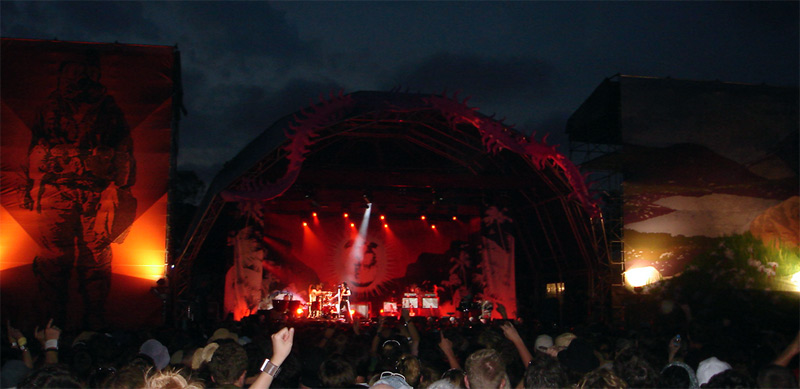 The White Stripes at the Big Day Out 2006 Melbourne